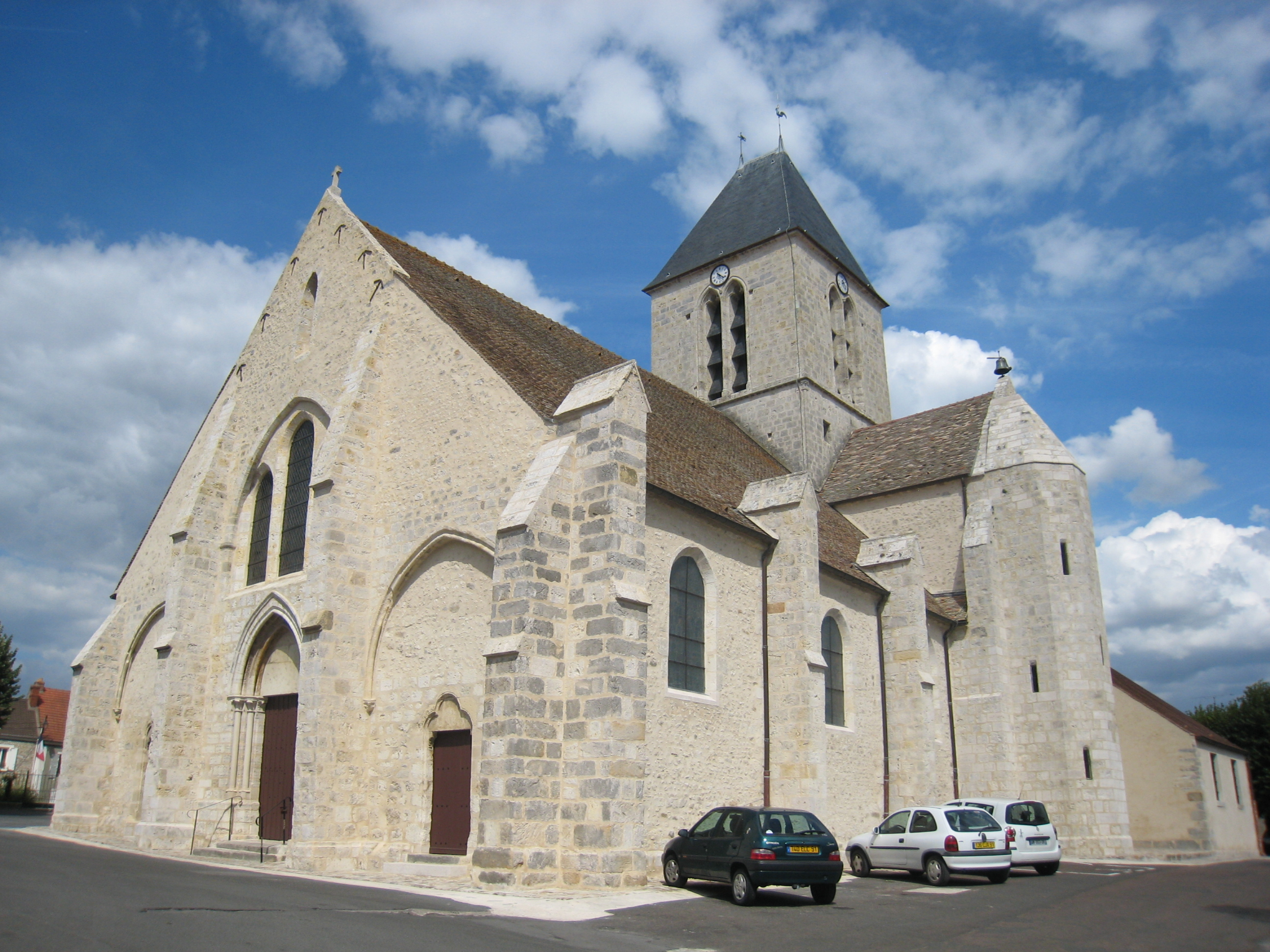 Church of Étréchy (Essonne, France)